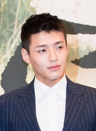 Kang Ha-neul at "Moon Lovers - Scarlet Heart Ryeo" press conference, 24 August 2016